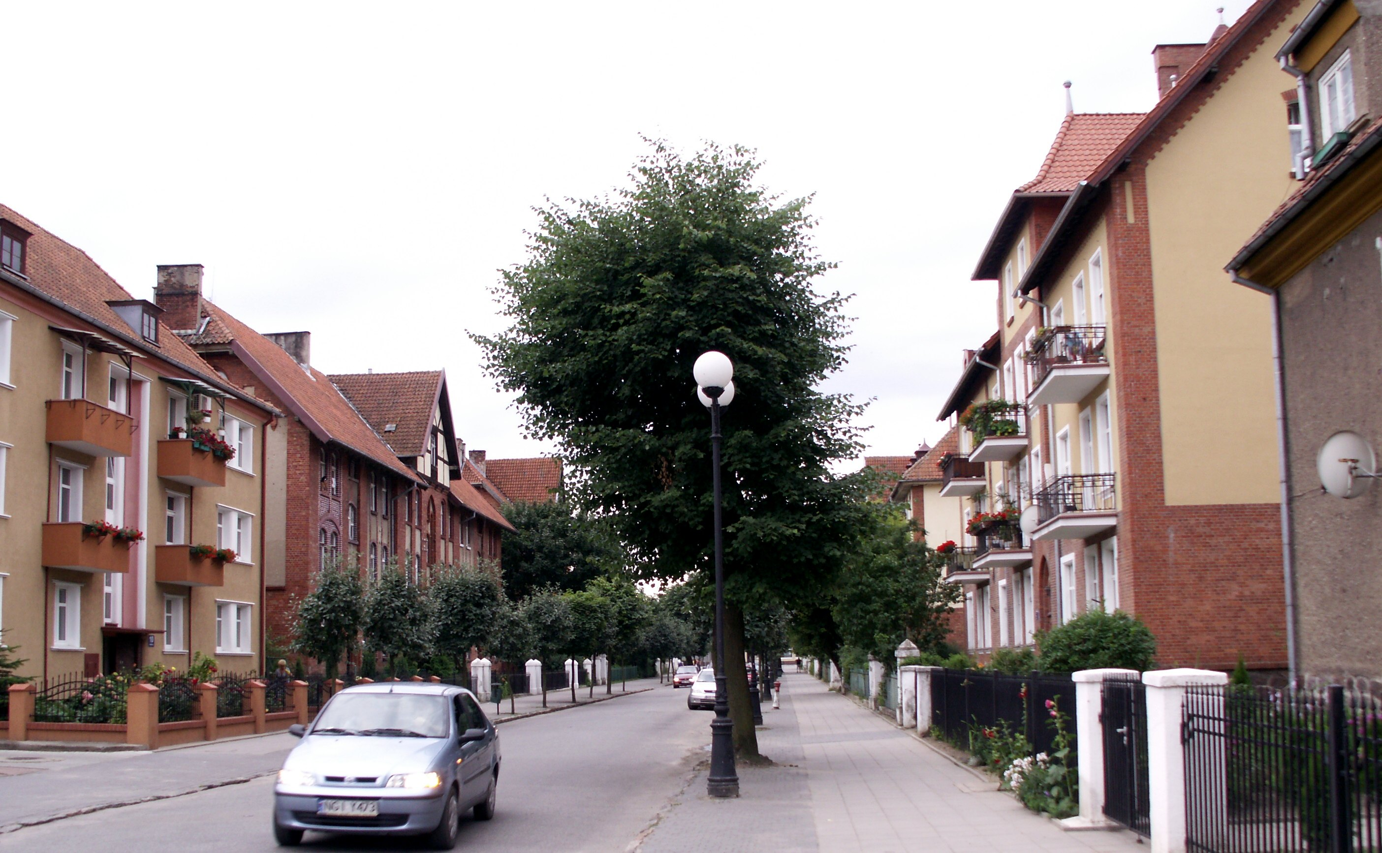 Giżycko, Poland